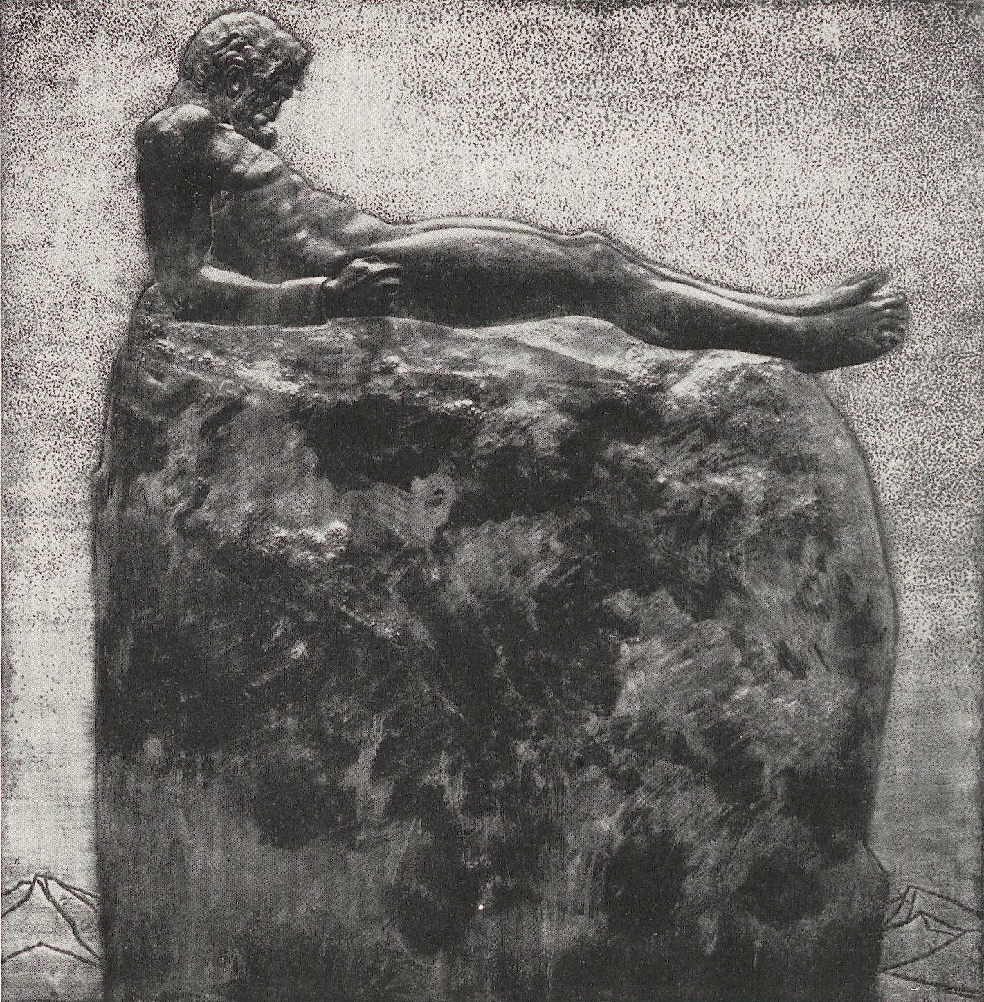 Prometheus.